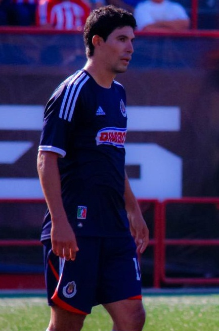 Chivas player Jonny Magallon